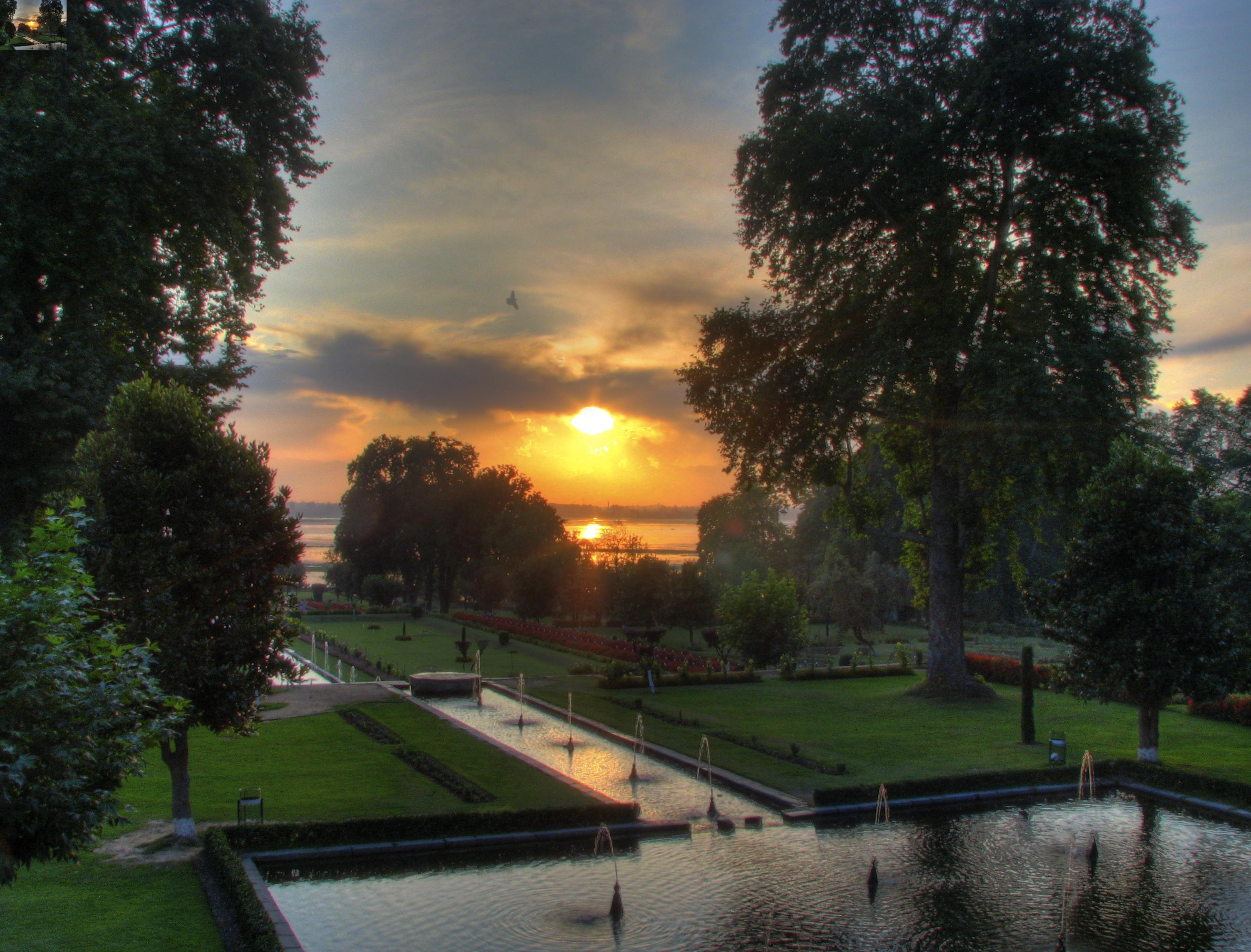 Trying an HDR shot of sunset over the terraces of the Nishat Bagh Mughal gardens gives it a surreal look.